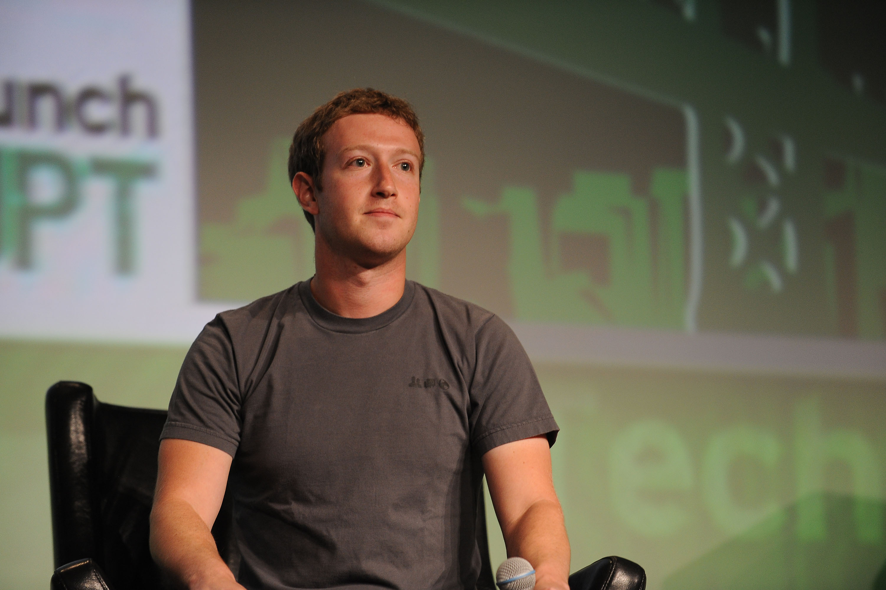 SAN FRANCISCO, CA - SEPTEMBER 11: Facebook Founder and CEO Mark Zuckerberg speaks during the TechCrunch Conference at SF Design Center on September 11, 2012 in San Francisco, California. (Photo by C Flanigan/WireImage)